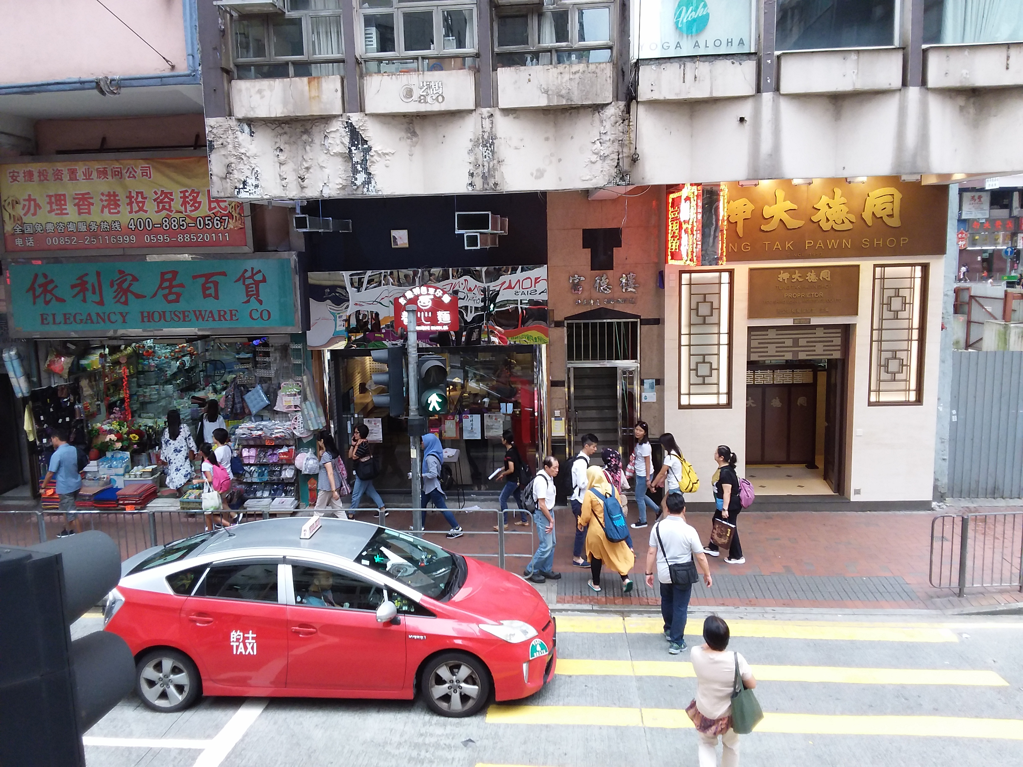 HK Tram tour view Wan Chai 軒尼詩道 Hennessy Road shops pawn in September 2018